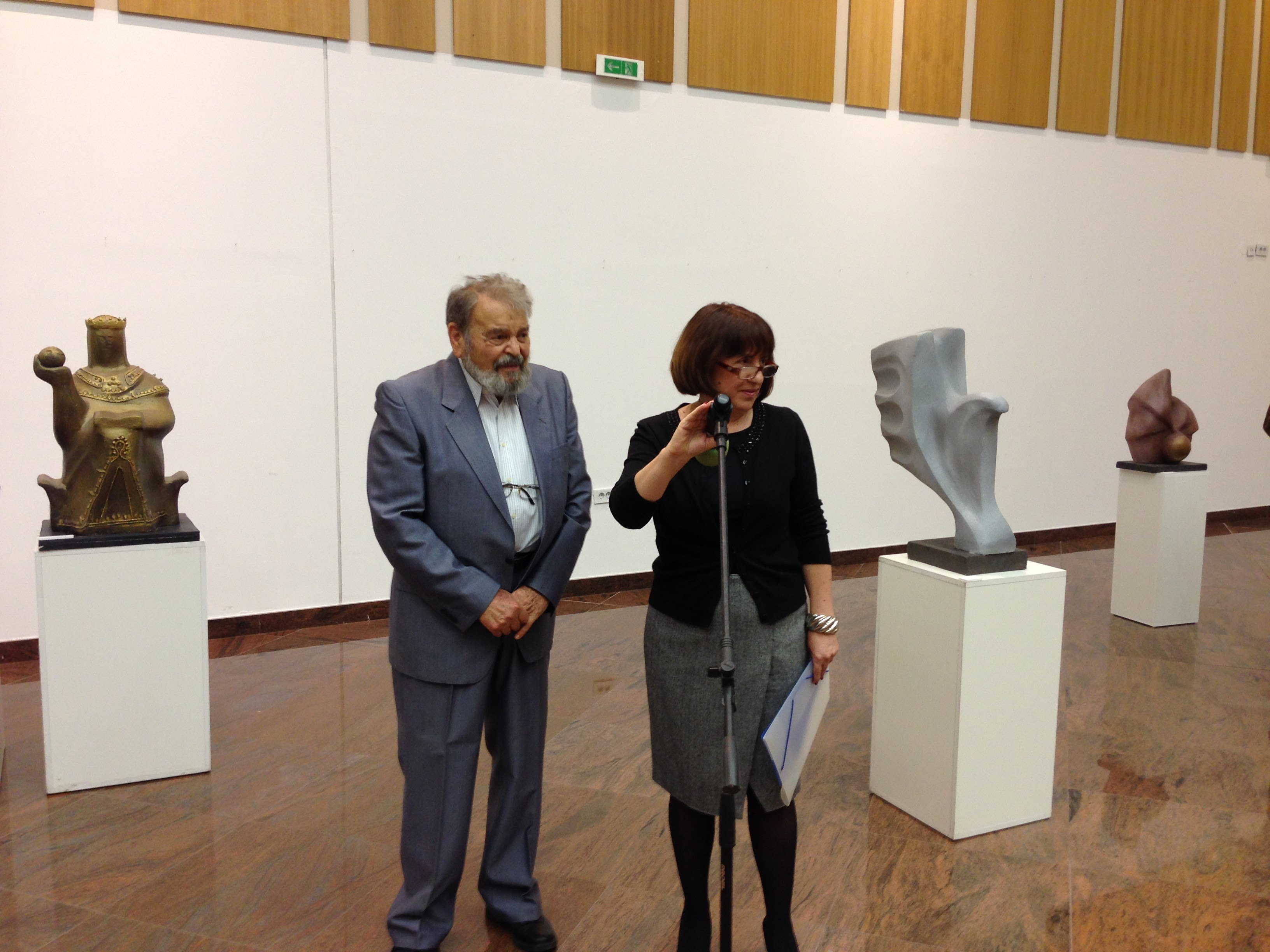 Vasilije Perevalov, Solo exhibition of the Gallery of the Home Officer in Niš